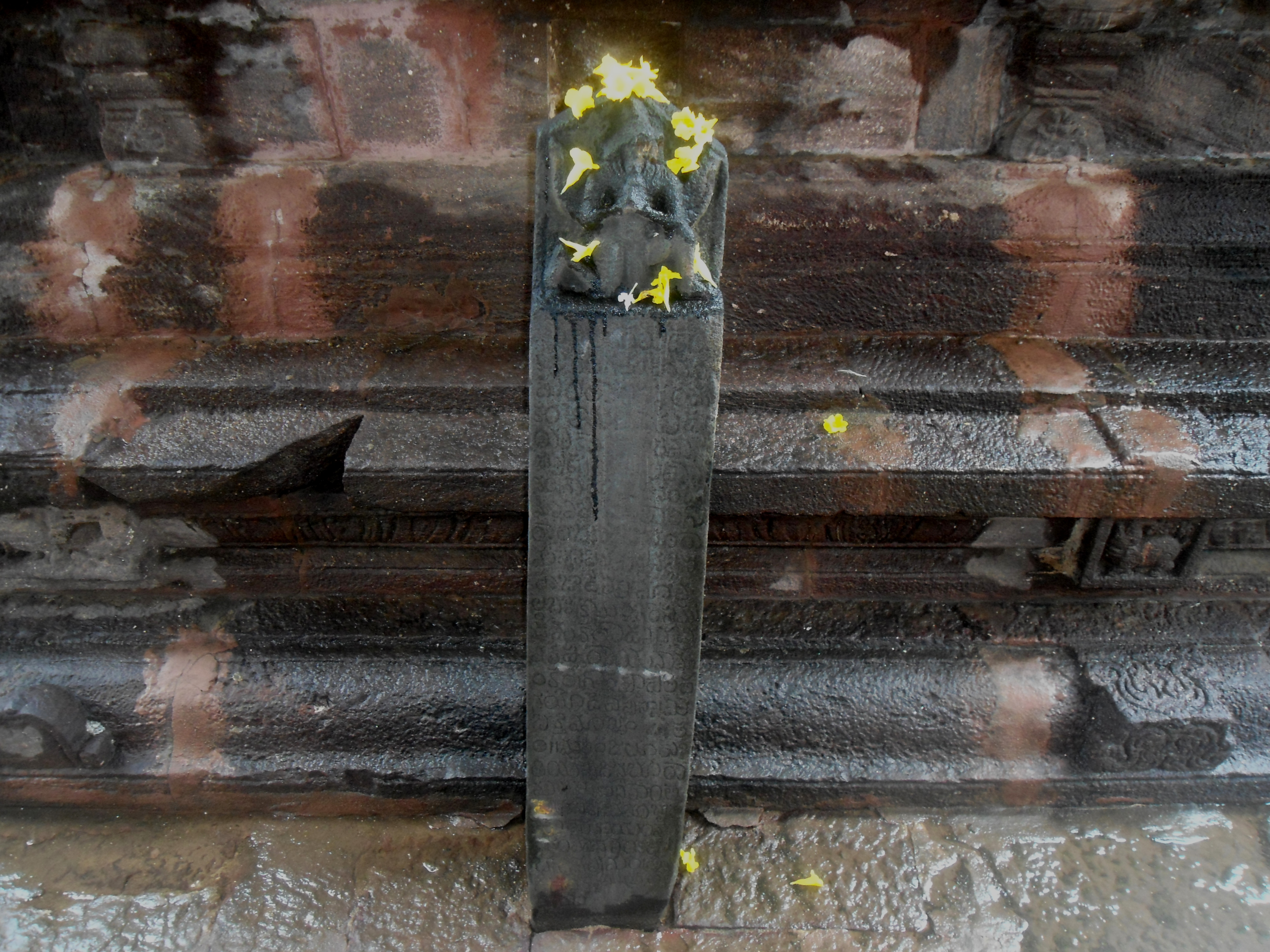 Sarpavaram Bhavanarayana Temple, Kakinada, East Godavari